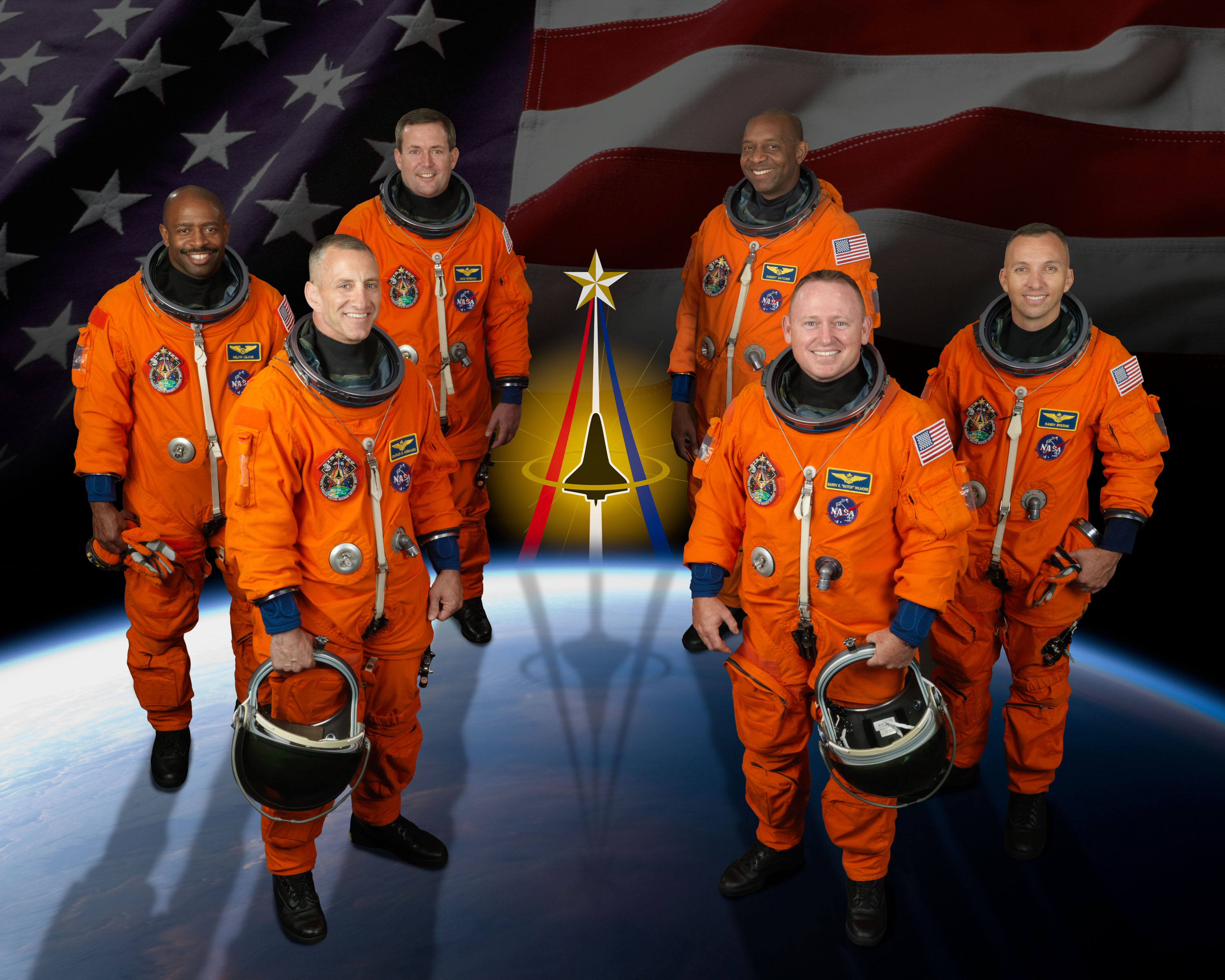 Attired in training versions of their shuttle launch and entry suits, these six astronauts take a break from training to pose for the STS-129 crew portrait. Pictured on the front row are astronauts Charlie Hobaugh (left), commander; and Barry Wilmore, pilot. From the left (back row) are astronauts Leland Melvin, Mike Foreman, Robert Satcher and Randy Bresnik, all mission specialists.